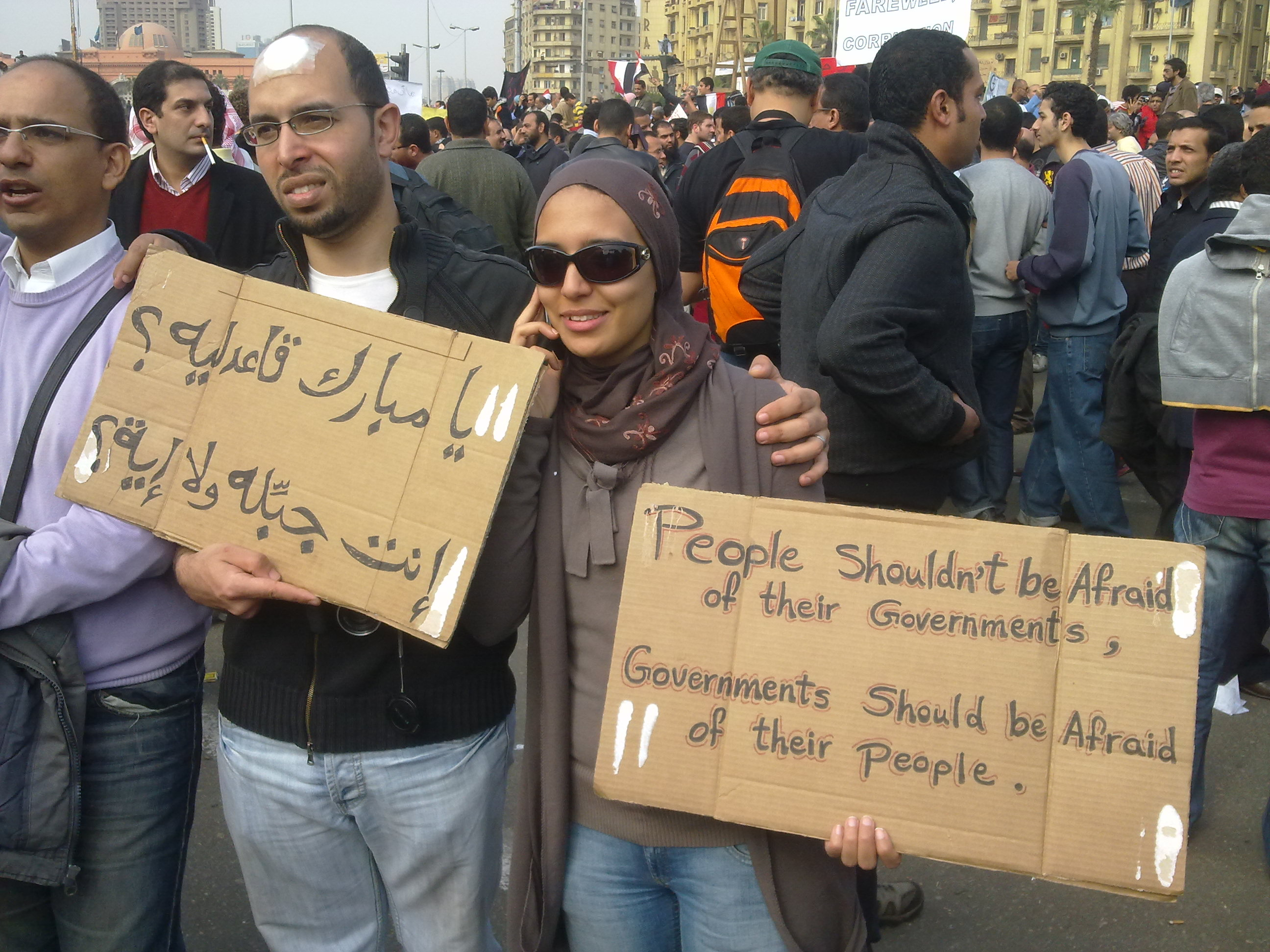 A couple of young people carrying cards during the 2011 Egyptian Revolution in El Tahrir Square